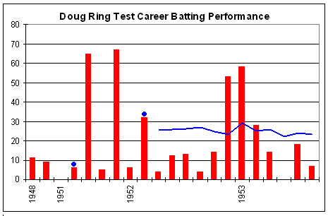 Test batting chart of Doug Ring. Red columns are the runs in the innings. Blue dots indicate not outs. Blue line is average in the last ten innings. Thanks to Raven4x4x for providing the template.